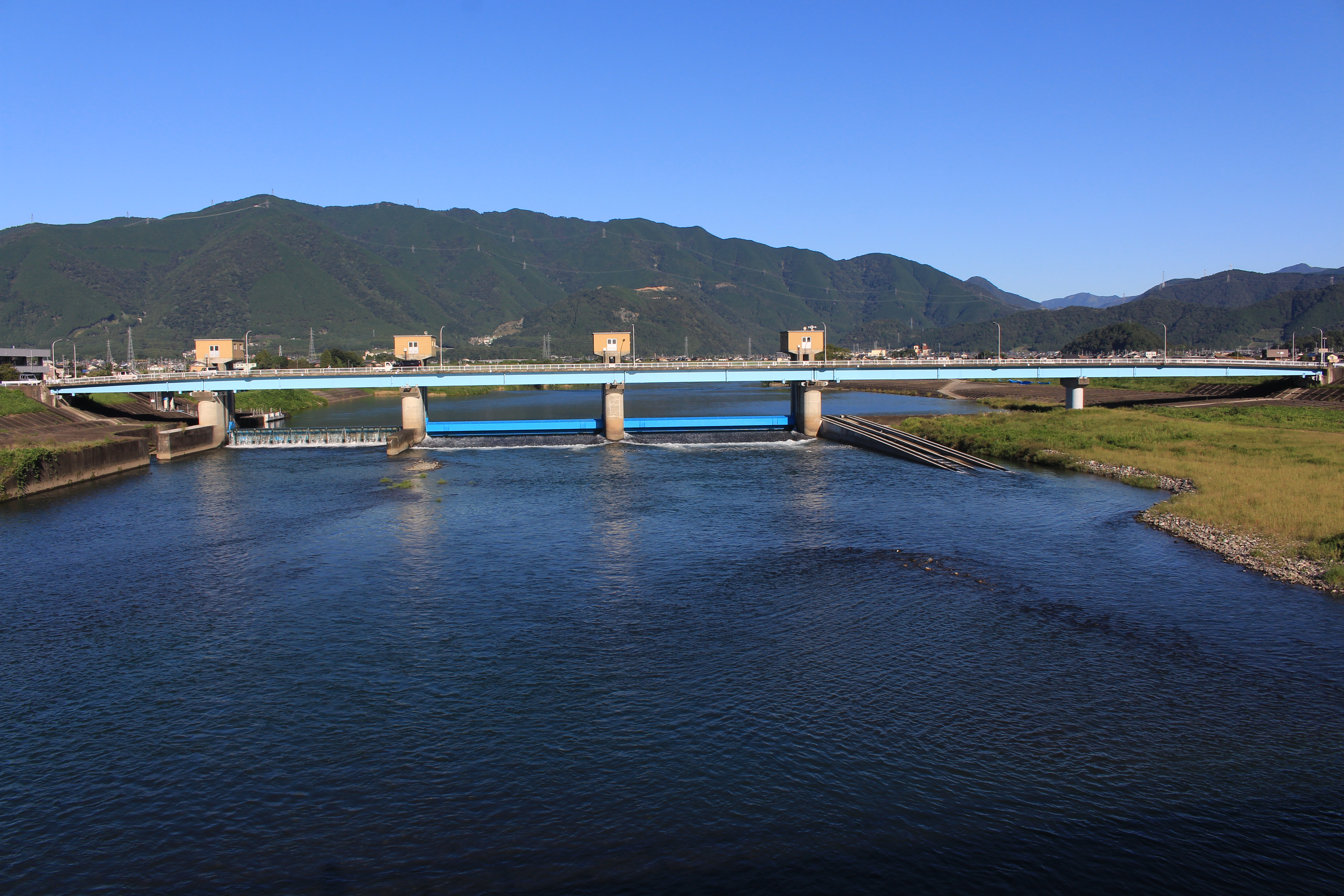 Okajima Head Works (Maejima-bashi) seen from Okajima Bridge in Ibigawa, Gifu Prefecture, Japan.